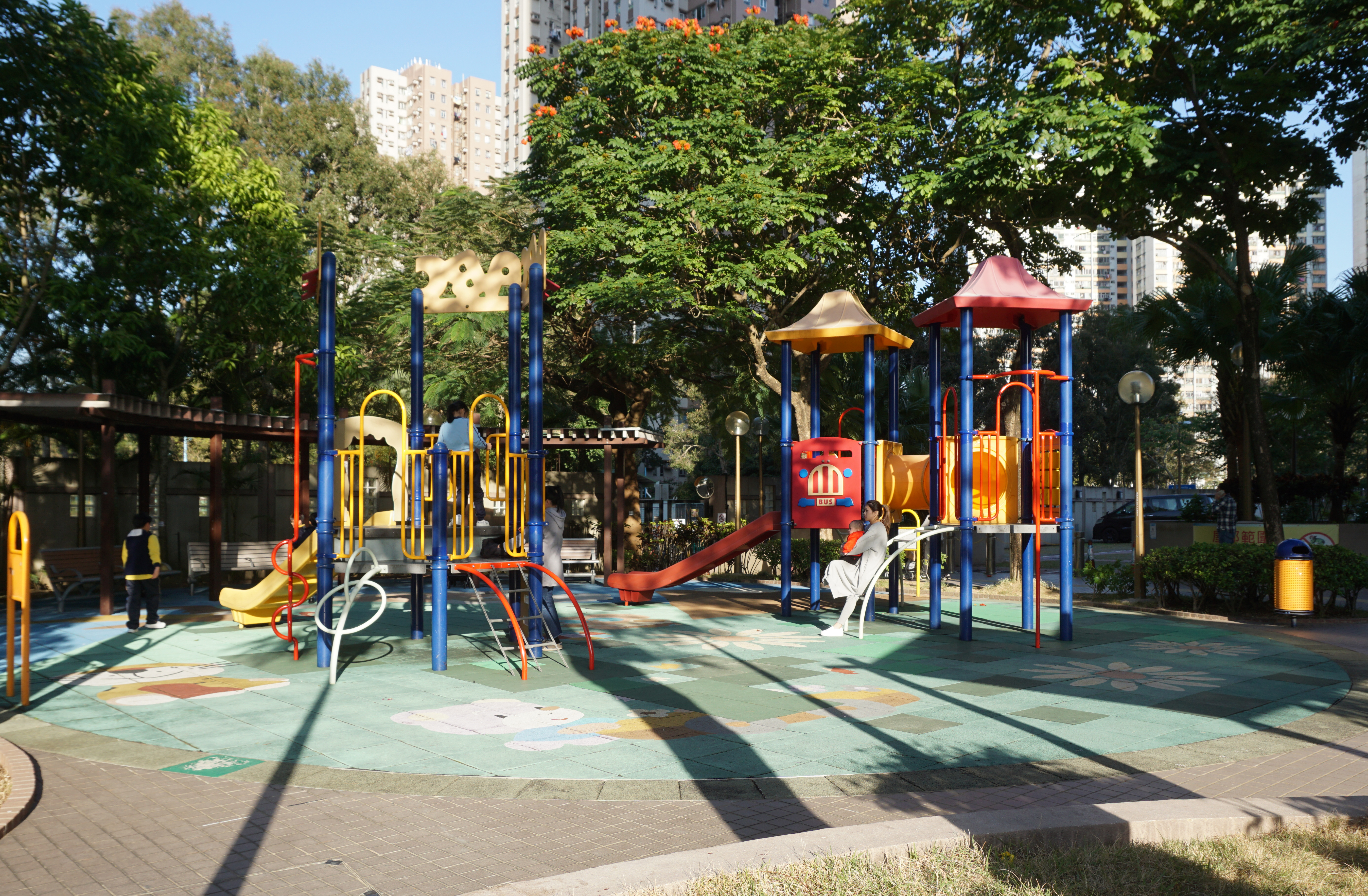 Hin Yiu Estate in Tai Wai, Hong Kong.